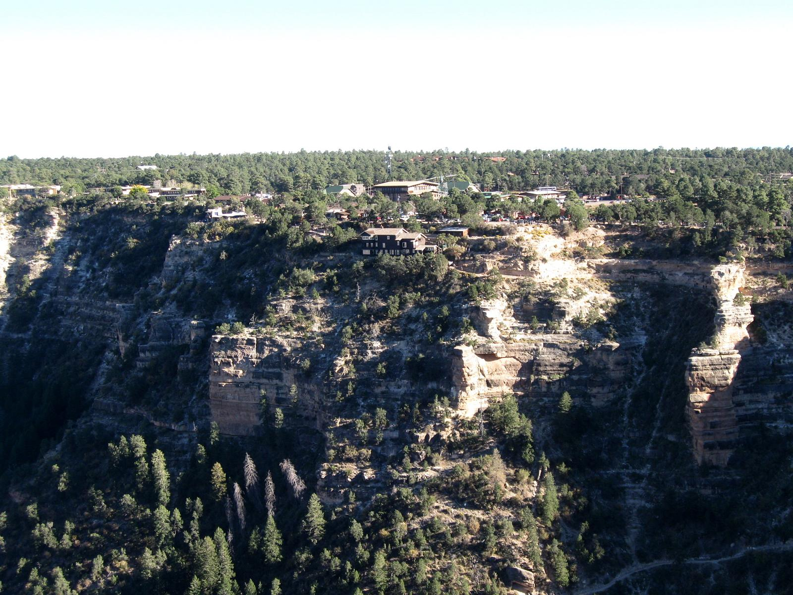 Grand Canyon Village, 2008